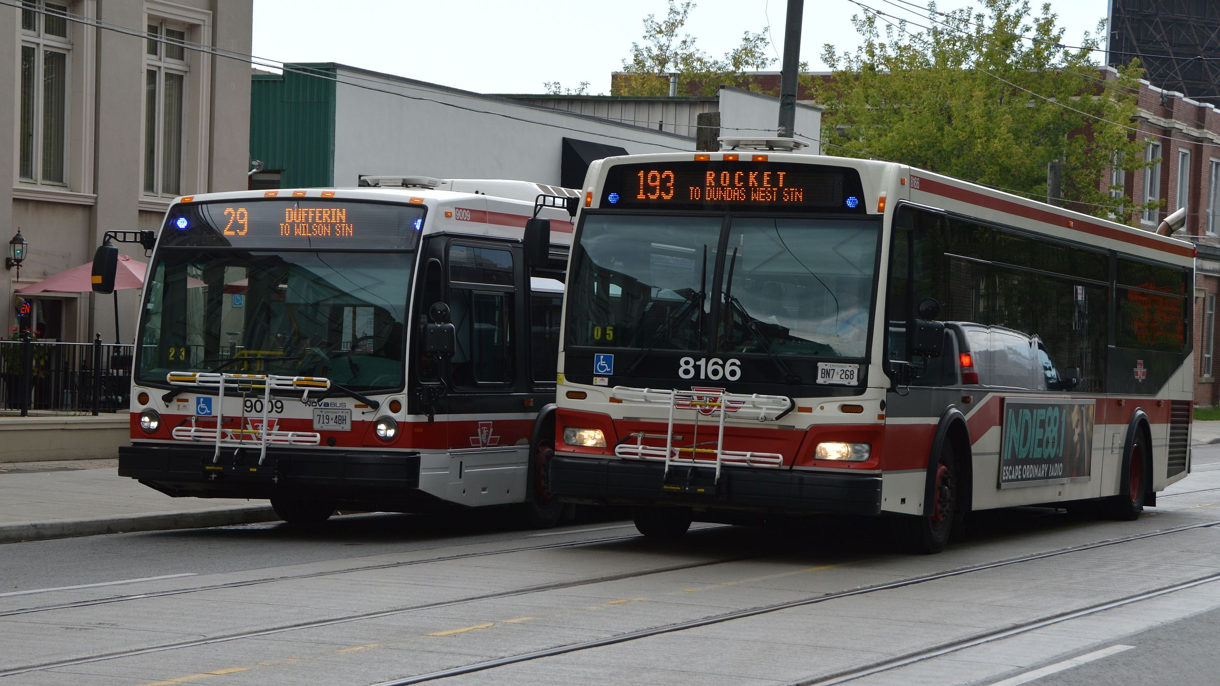 TTC 9009 and 8166 northbound on Dufferin Street after departing the Dufferin Gate Loop, with the express bus overtaking